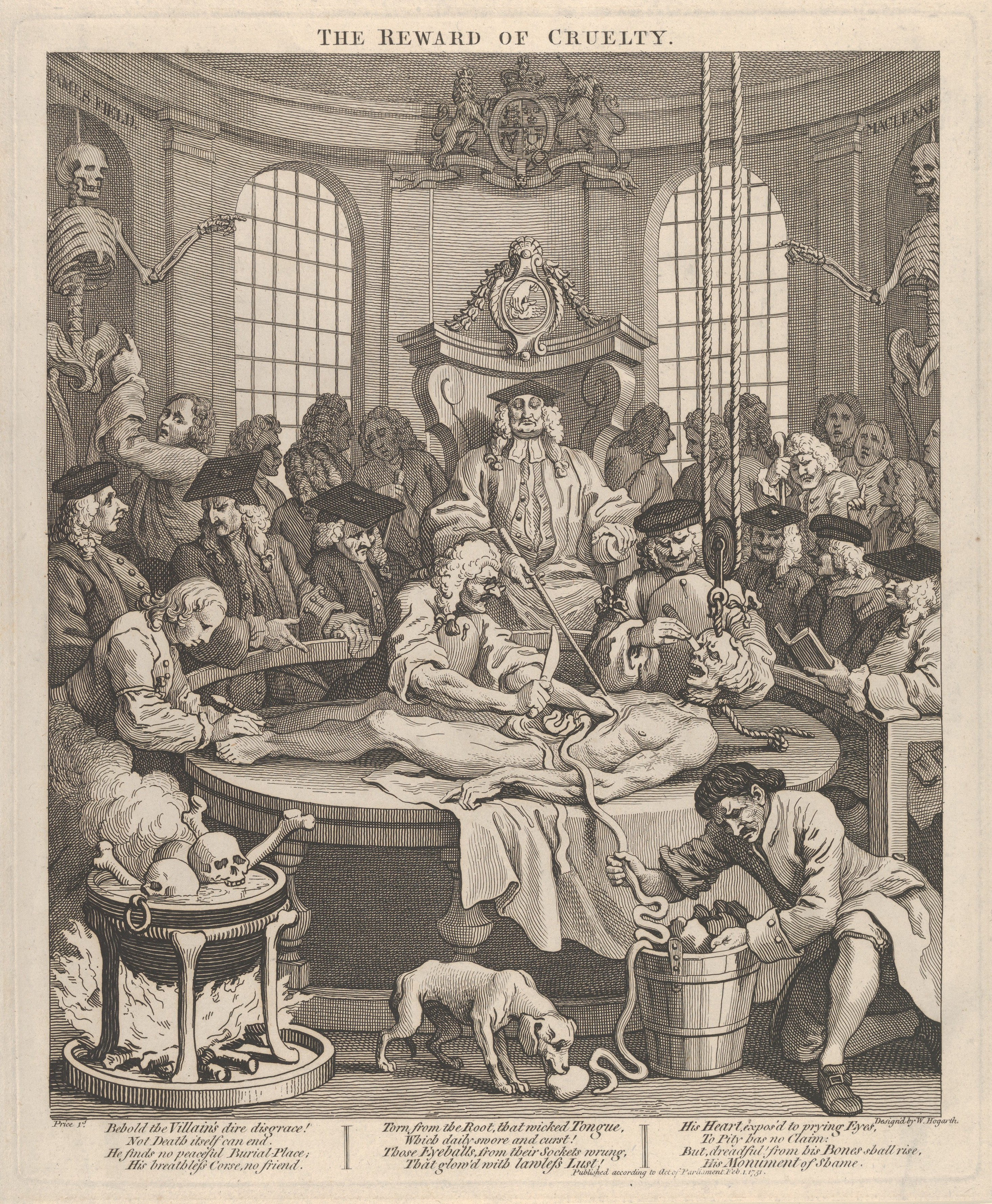 Print; Prints